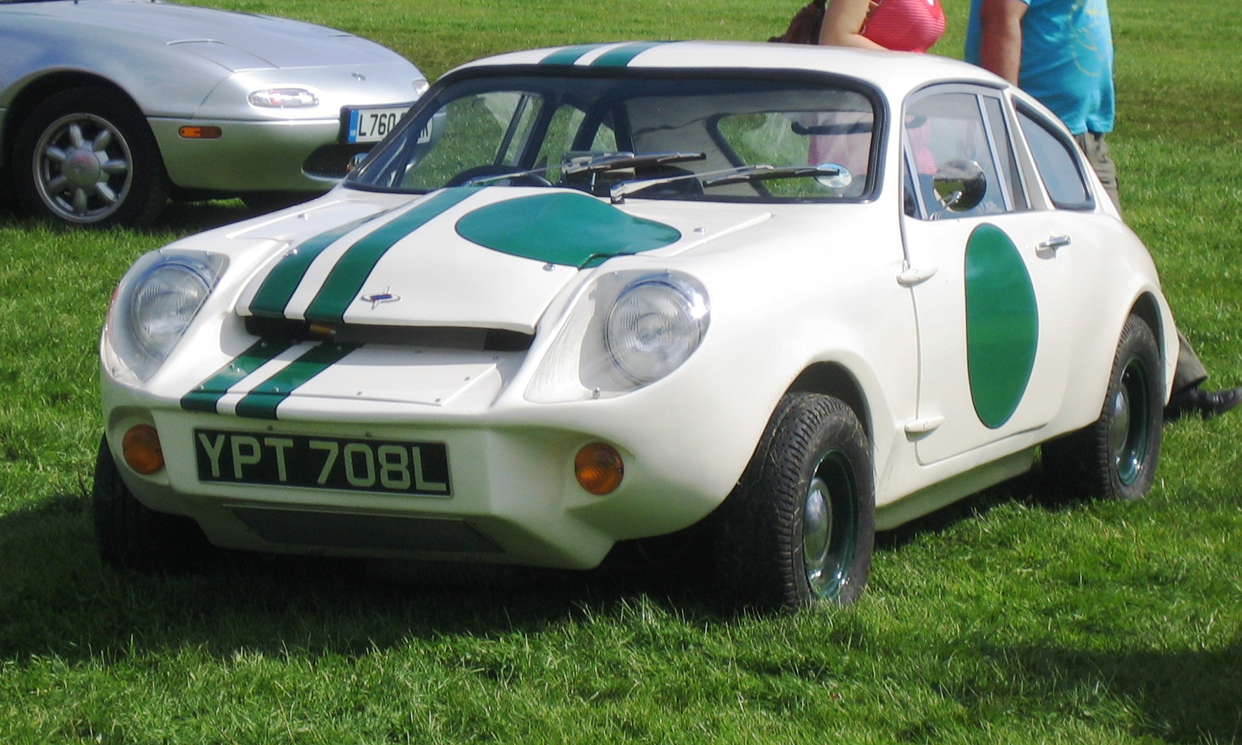 Mini Marcos - ie a Marcos based on a Mini - at a Classic Car Show in Hertfordshire